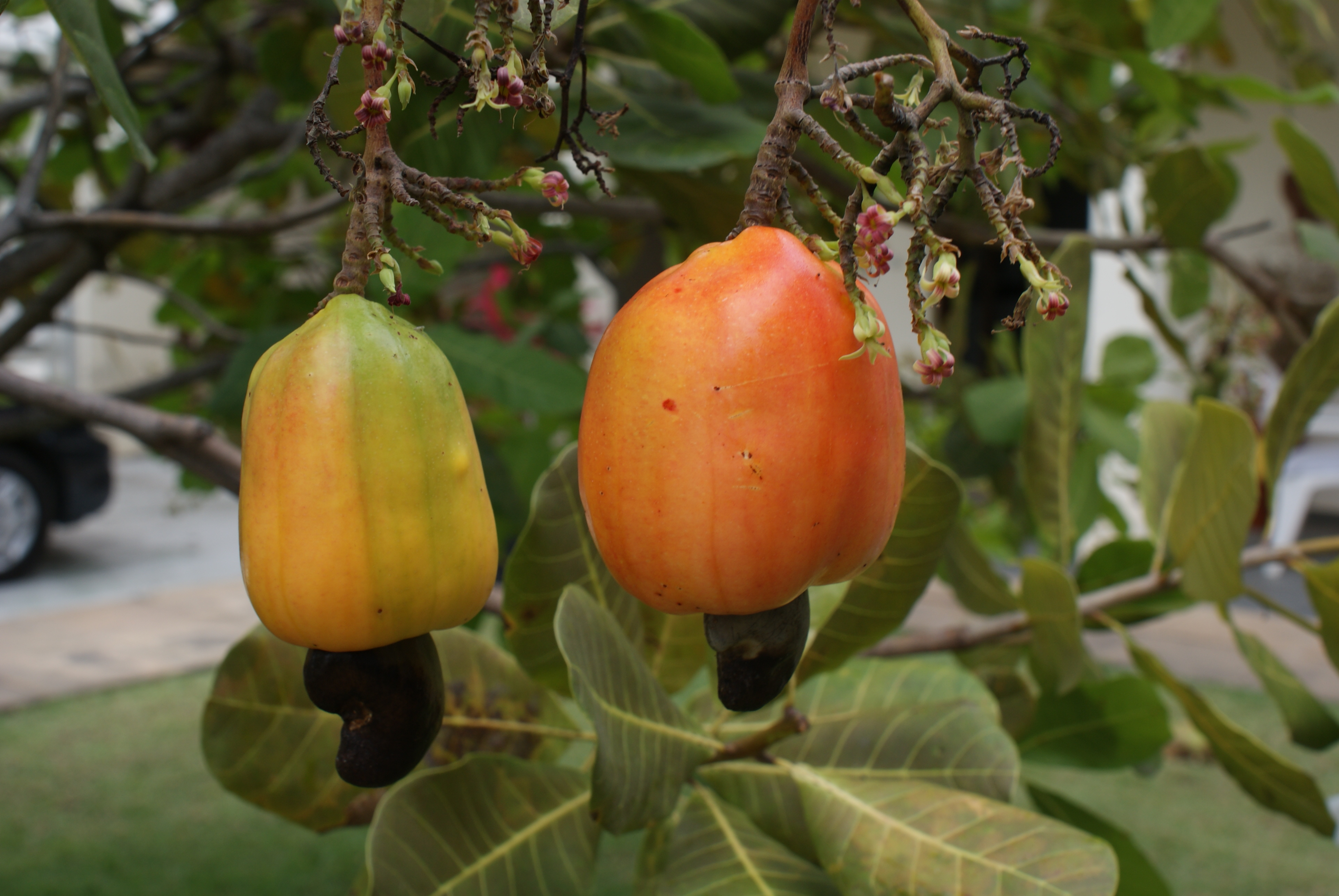 Cashew apples with nuts hanging below. Location: Salvador, Praia do Forte, Bahia, Brazil